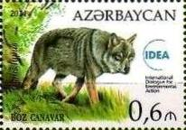 International Dialogue for Environmental Action